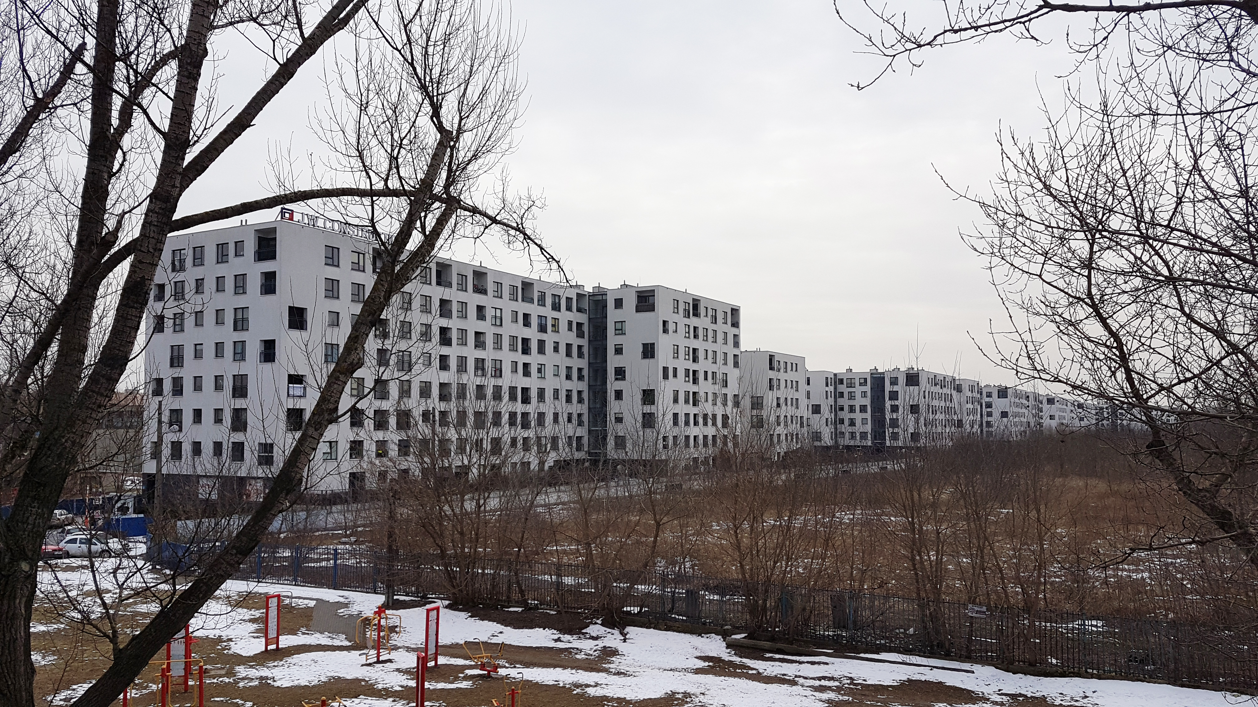 Górczewska Park in Warsaw